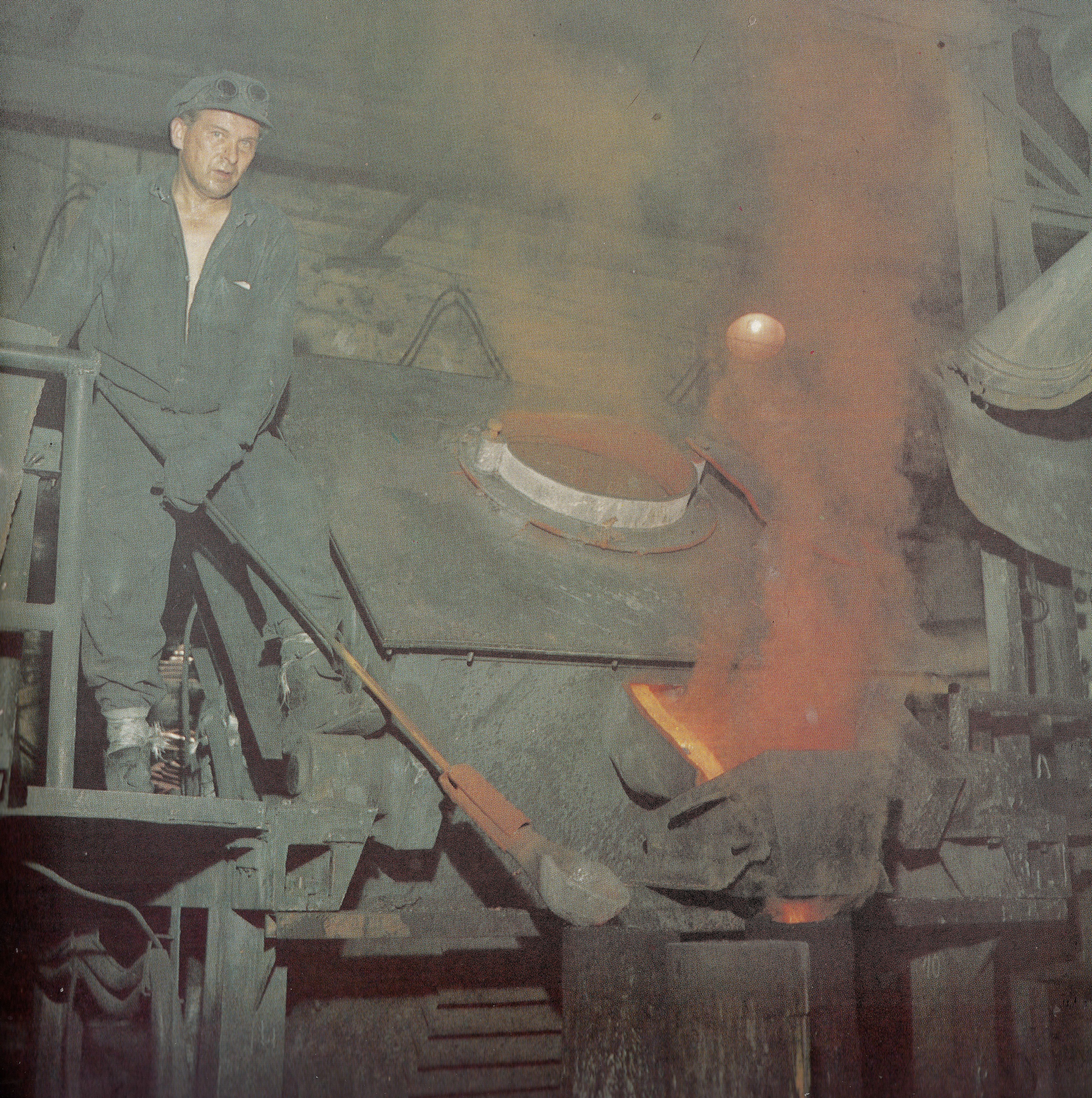 Electric furnaces in the foundary at the Walcowania Metali Warszawa in Warsaw